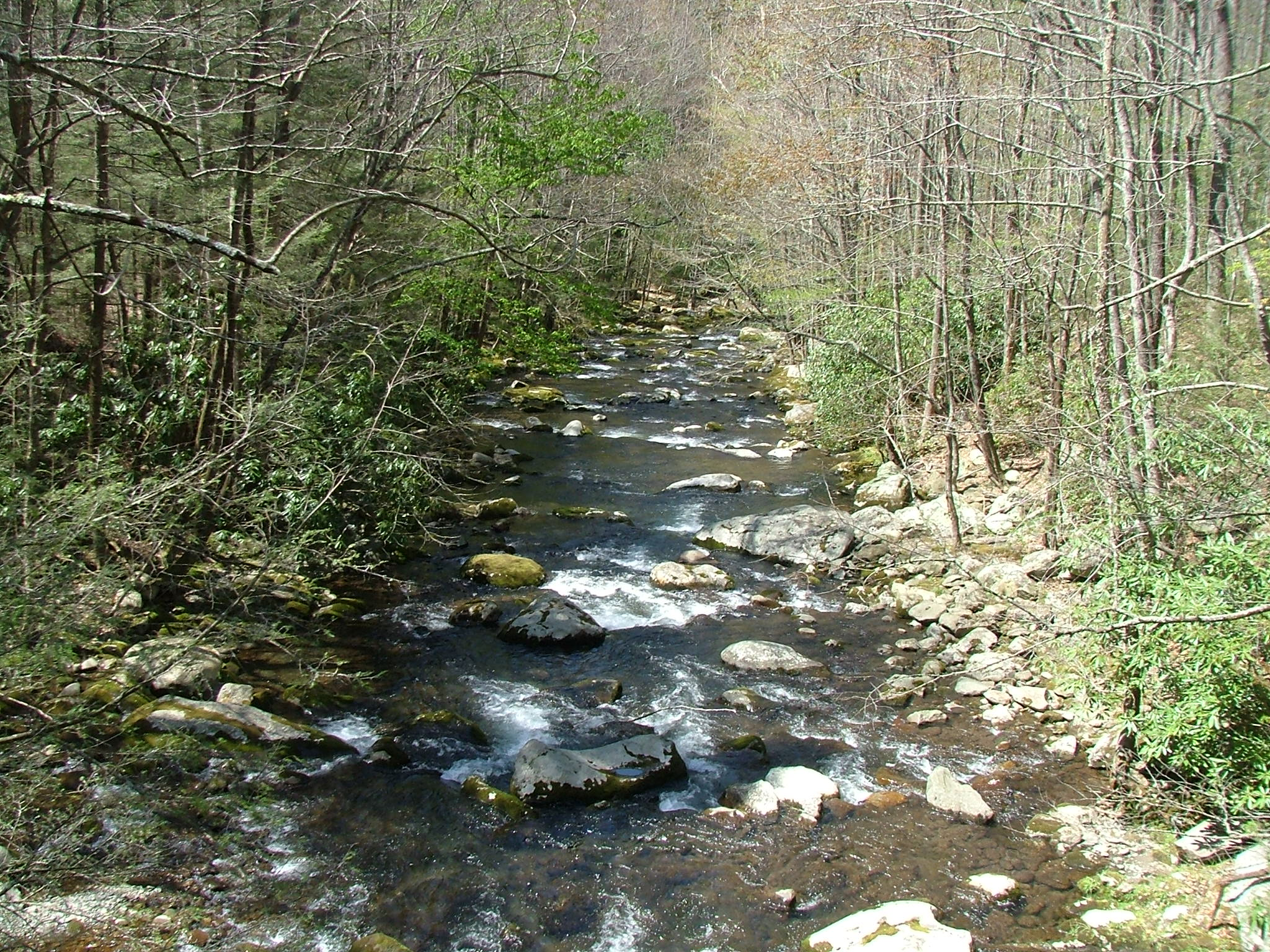 Taken by me 8 April 2007 near junction of Thunderhead and Lynn Prongs